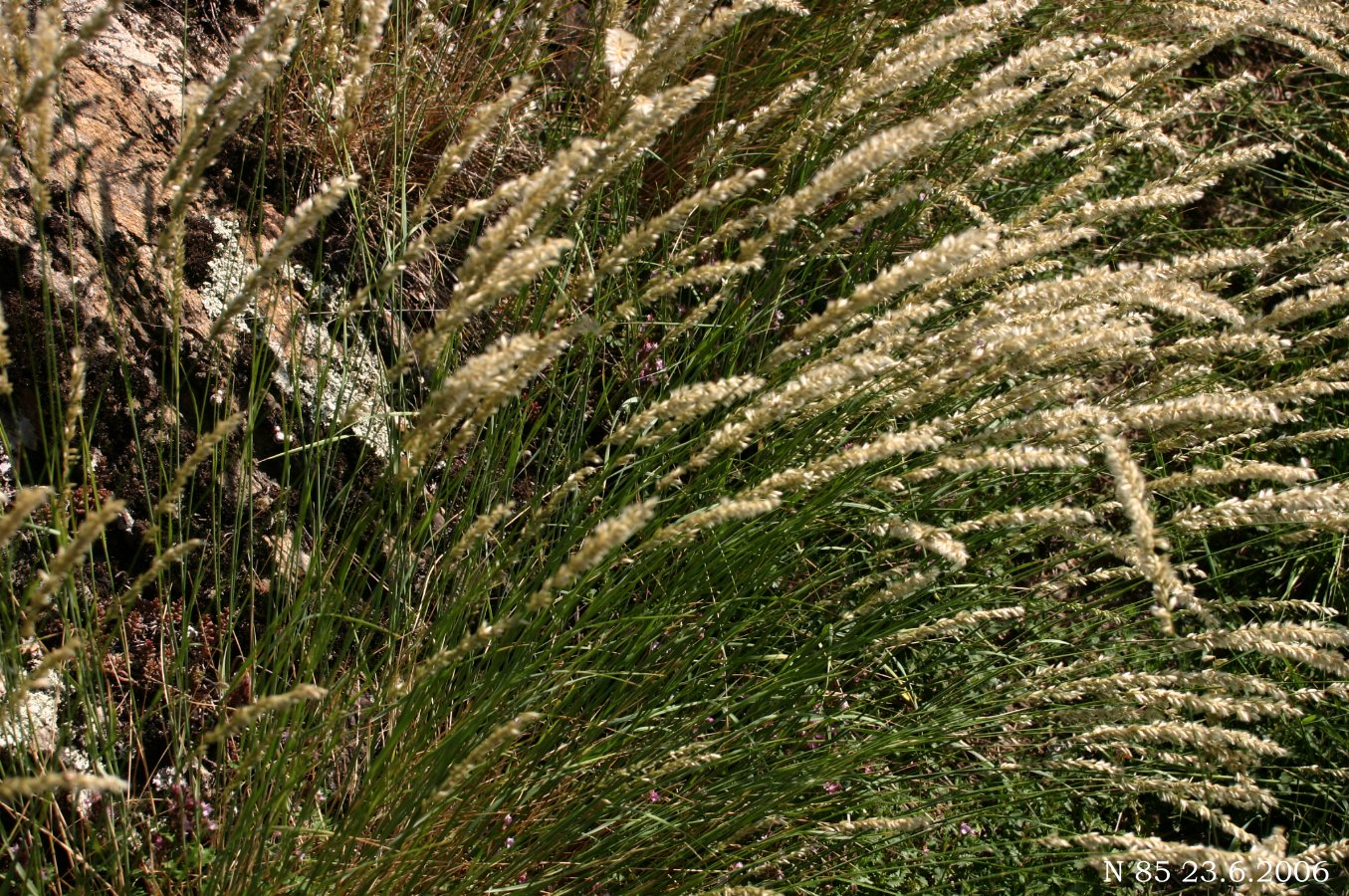 Melica ciliata: Habitus